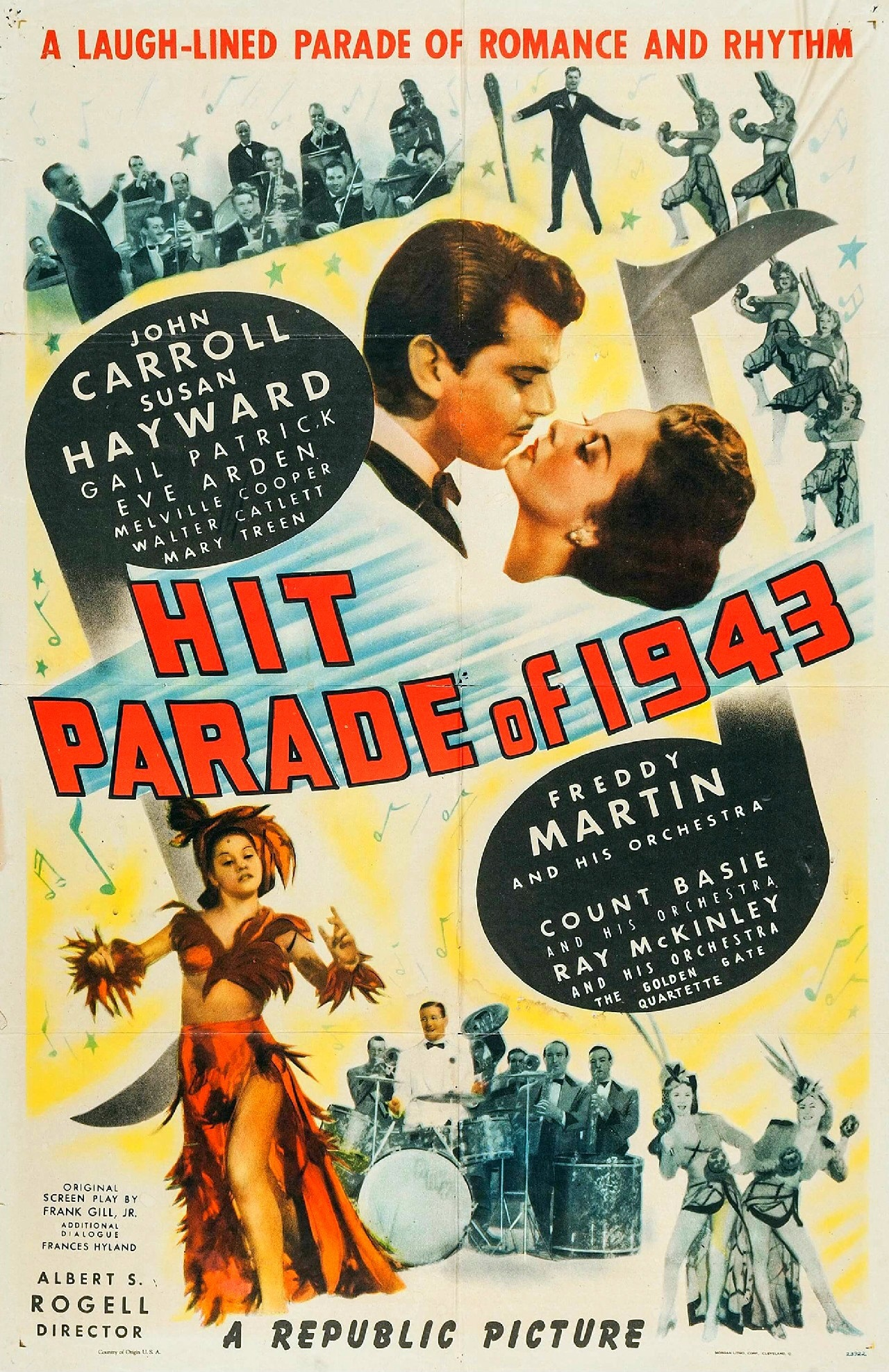 Poster for the 1943 film Hit Parade of 1943. There are no copyright marks. At bottom left is Country of origin USA. At bottom right is Morgen Litho Corp. Cleveland, O-they printed the poster-and 23922.